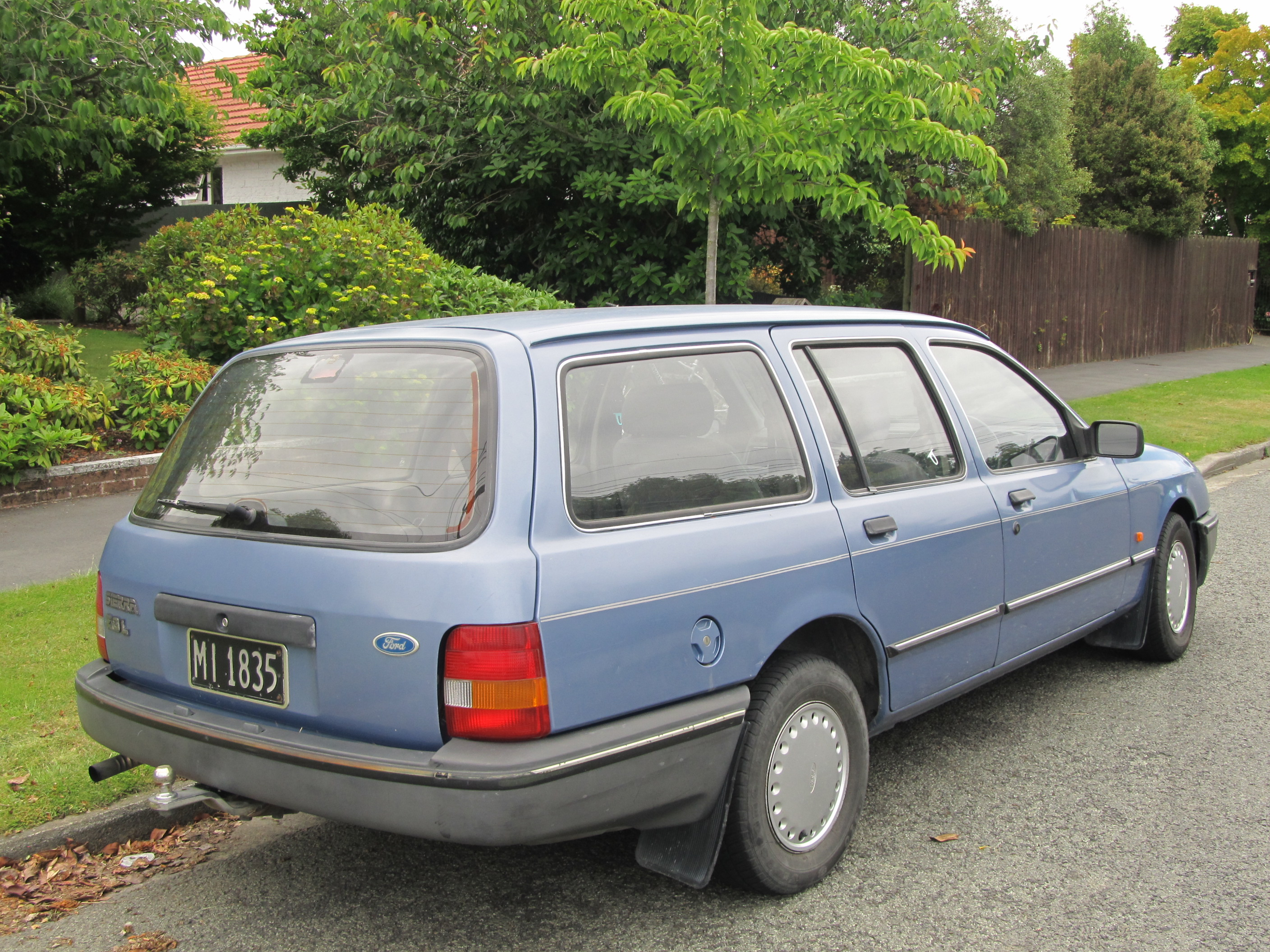 MI1835 Most of these, like the Cortina estates before them, were purchased for fleet use but they were never as popular as the Cortina. This was an extremely well-kept example. Is it just me, or do the rear doors on these Sierra estates seem extremely small and narrow?